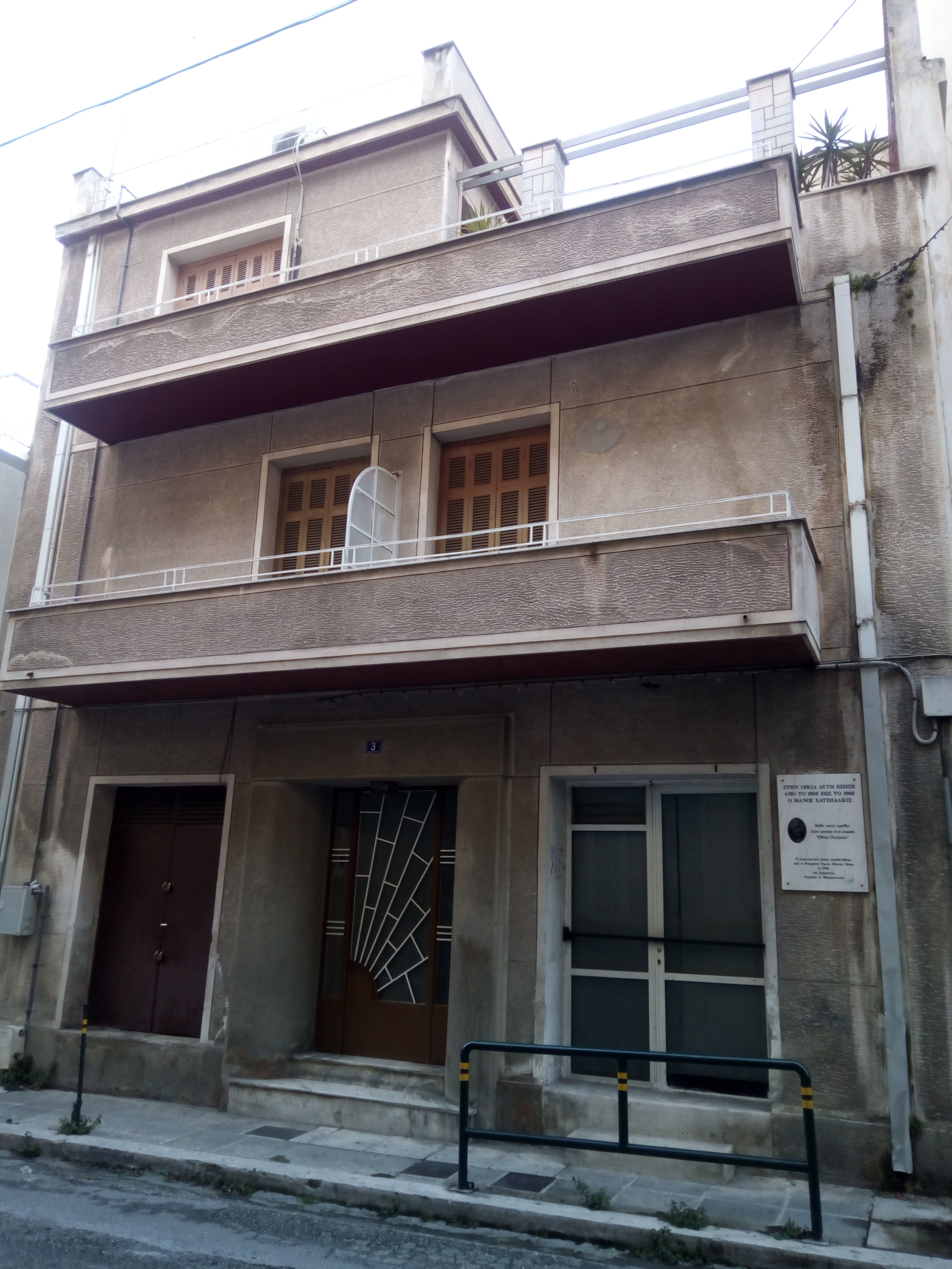 Manos Hatzidakis house in Pangrati, Athens, Greece